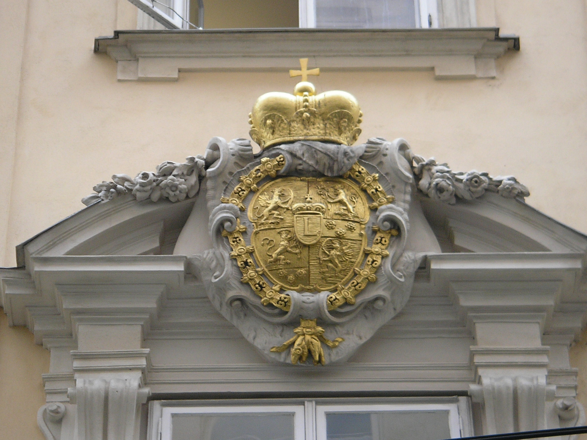 Palais Esterházy in Vienna, at Wallnerstraße.